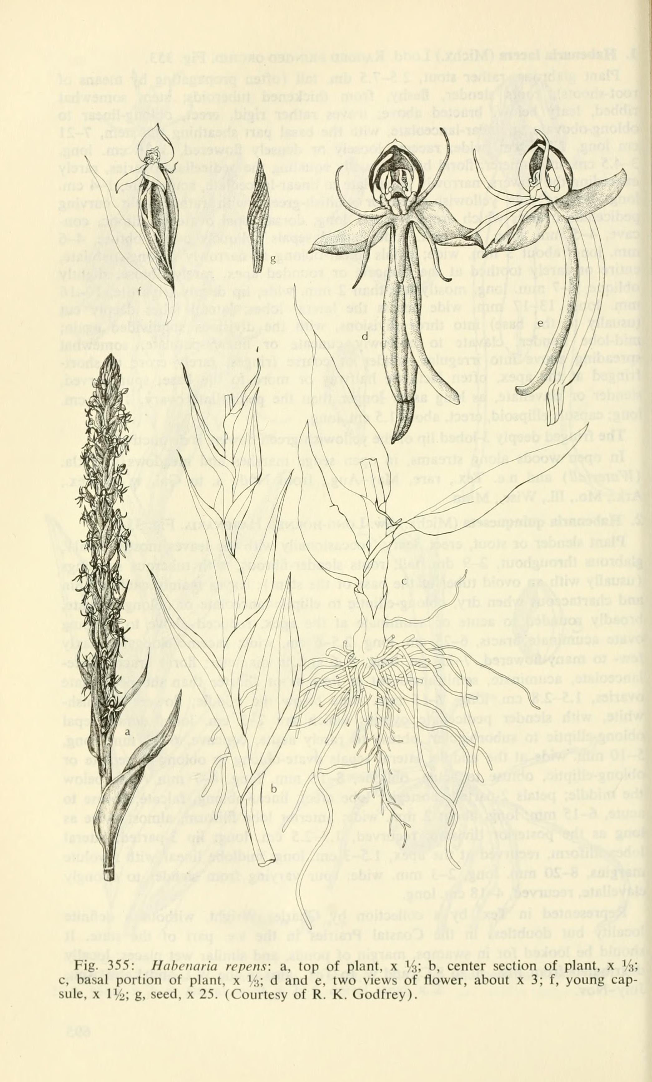 Title: Aquatic and wetland plants of southwestern United States Year: 1972 (1970s) Authors: Correll, Donovan Stewart, 1908-; Correll, Helen B Subjects: Aquatic plants -- Southwestern States; Wetland plants -- Southwestern States Publisher: [Washington Environmental Protection Agency; [For sale by the Supt. of Docs. , U. S. Govt. Print. Off. Text Appearing Before Image: ' Text Appearing After Image: Fig. 355: Hcibcnaria rcpens: a, fop of plant, x \i\; b, center section of plant, x Mi; c, basal portion of plant, x Vij; d and e, two views of flower, about x 3; f, young cap- sule, X P/^; g, seed, x 25. (Courtesy of R. K. Godfrey).